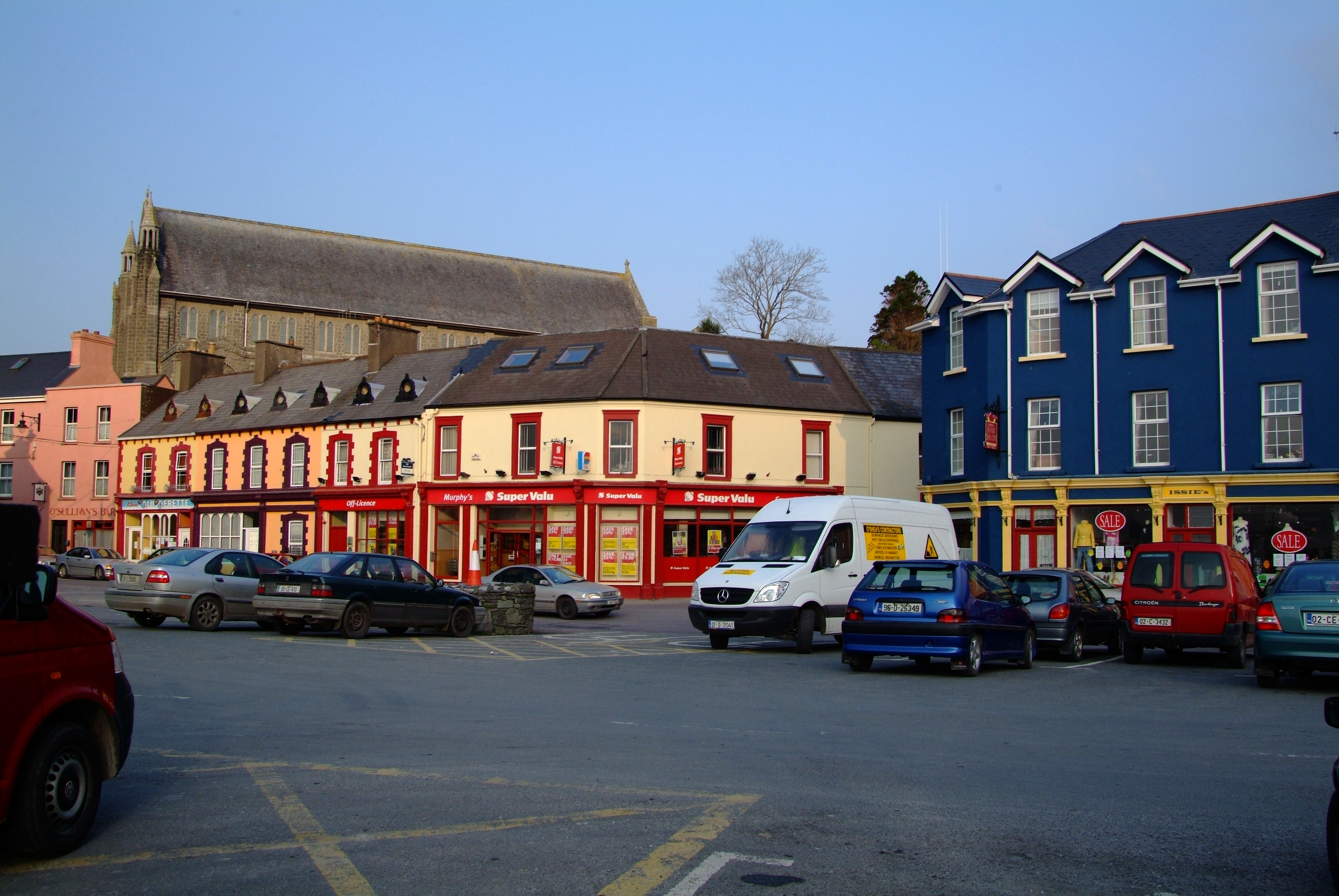 This photo shows the junction of main street and the north road in Castletownbere, County Cork, Ireland. Castletown ist the capital of the Beara peninsula